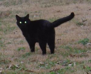 I, Damace, took this picture of my cat at dusk.